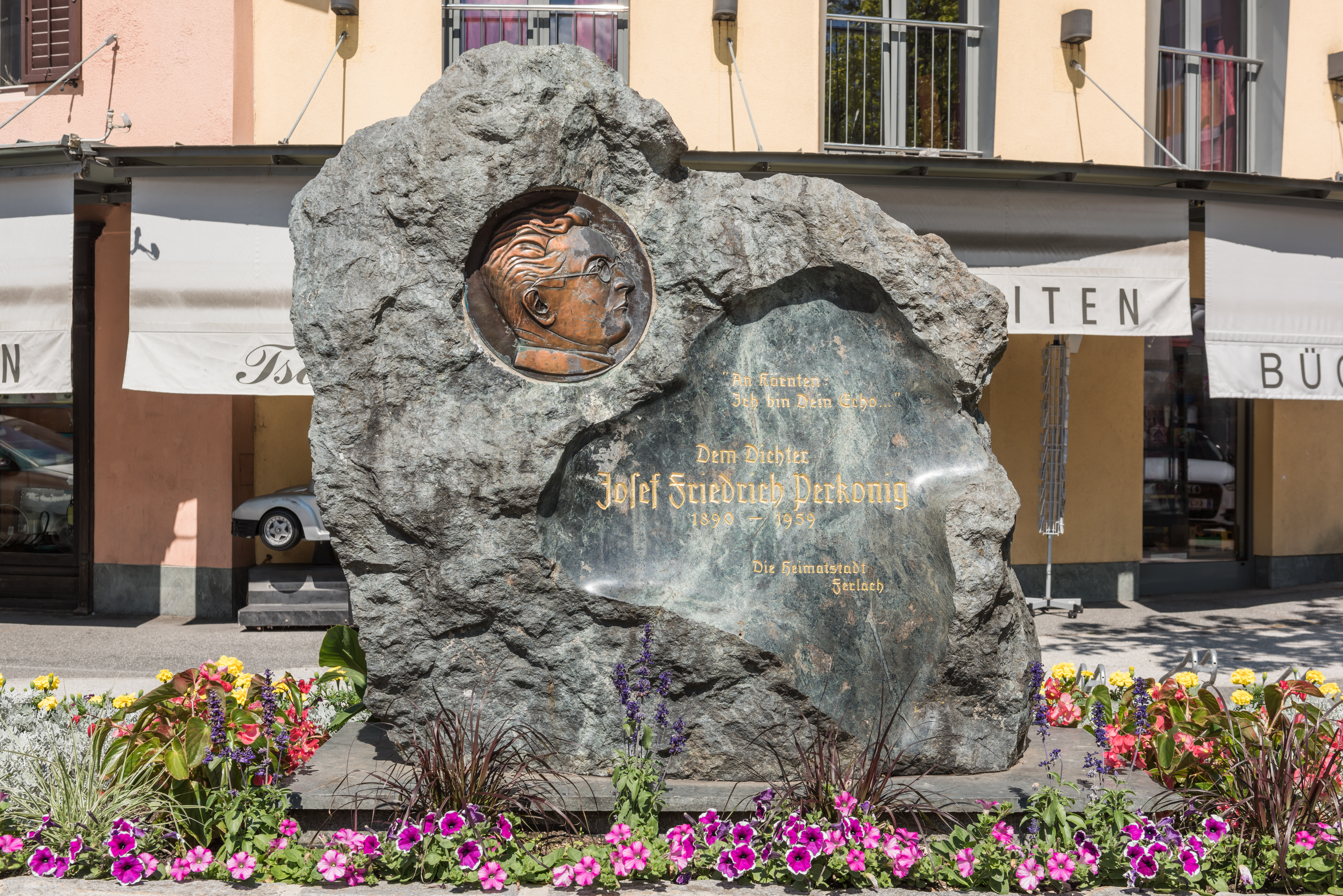 Monument for the poet J. F. Perkonig on Hauptplatz, municipality Ferlach, district Klagenfurt Land, Carinthia, Austria, EU